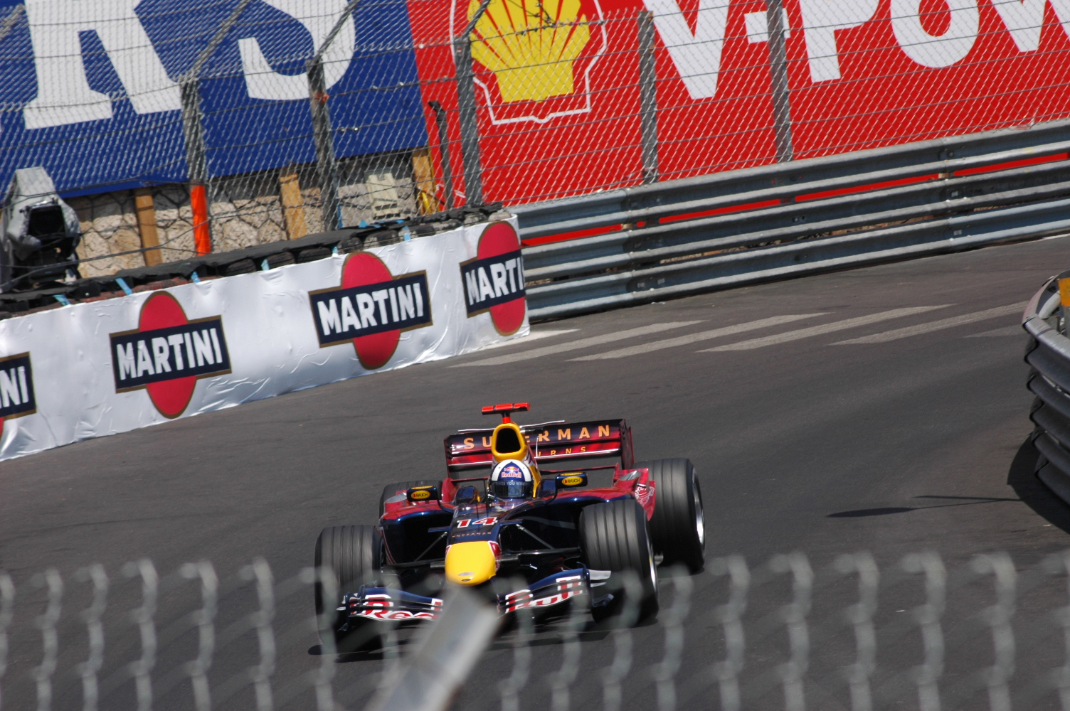 David Coulthard Red Bull Racing RB2 (2006) during the Formation Lap for the 2006 Monaco Grand Prix.